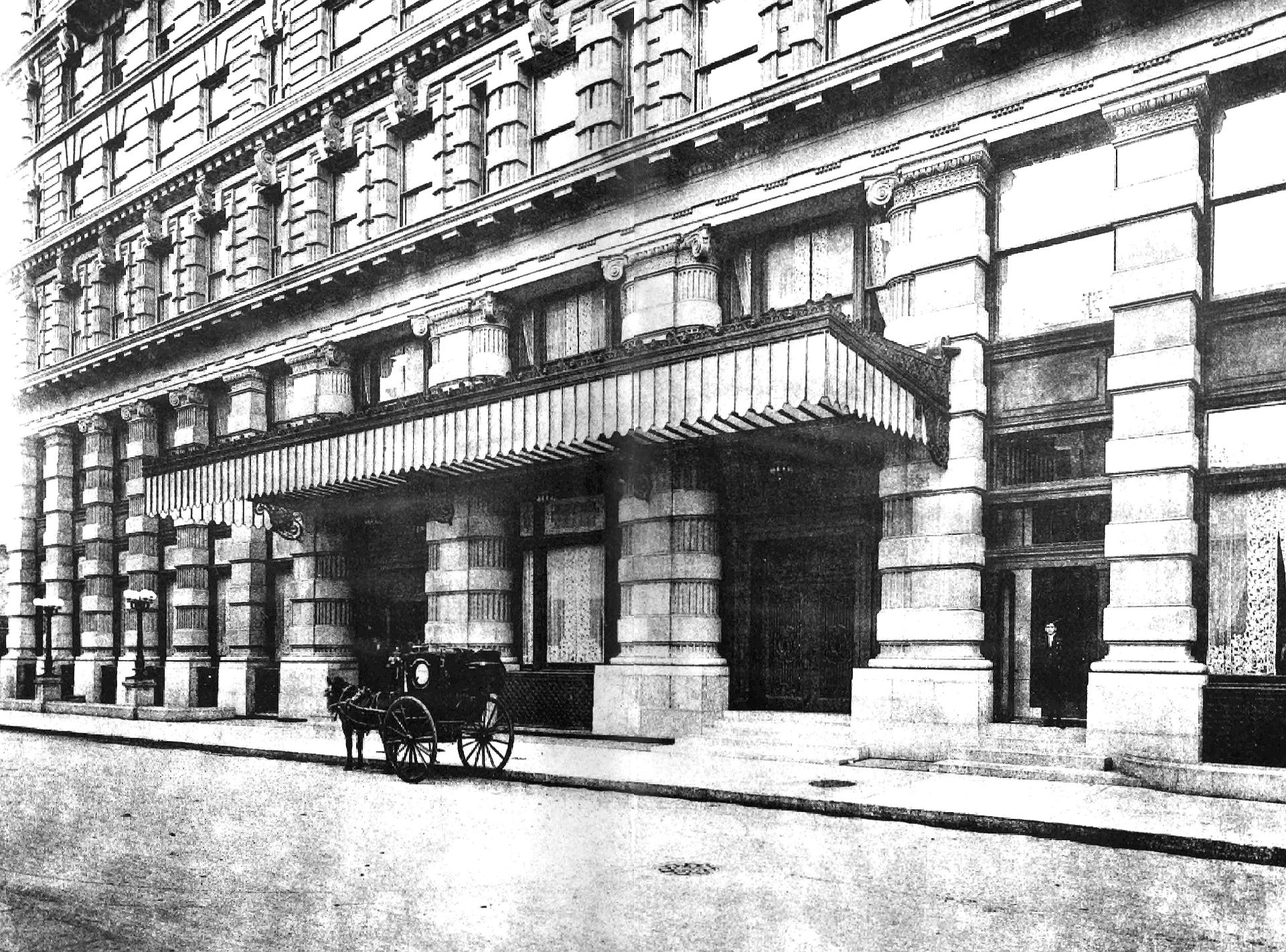 Photo of the main entrance at Sherry's restaurant in 1899. Sherry's was located at Forty-Fourth Street and Fifth Avenue in New York City. The building's architects were McKim, Mead and White.